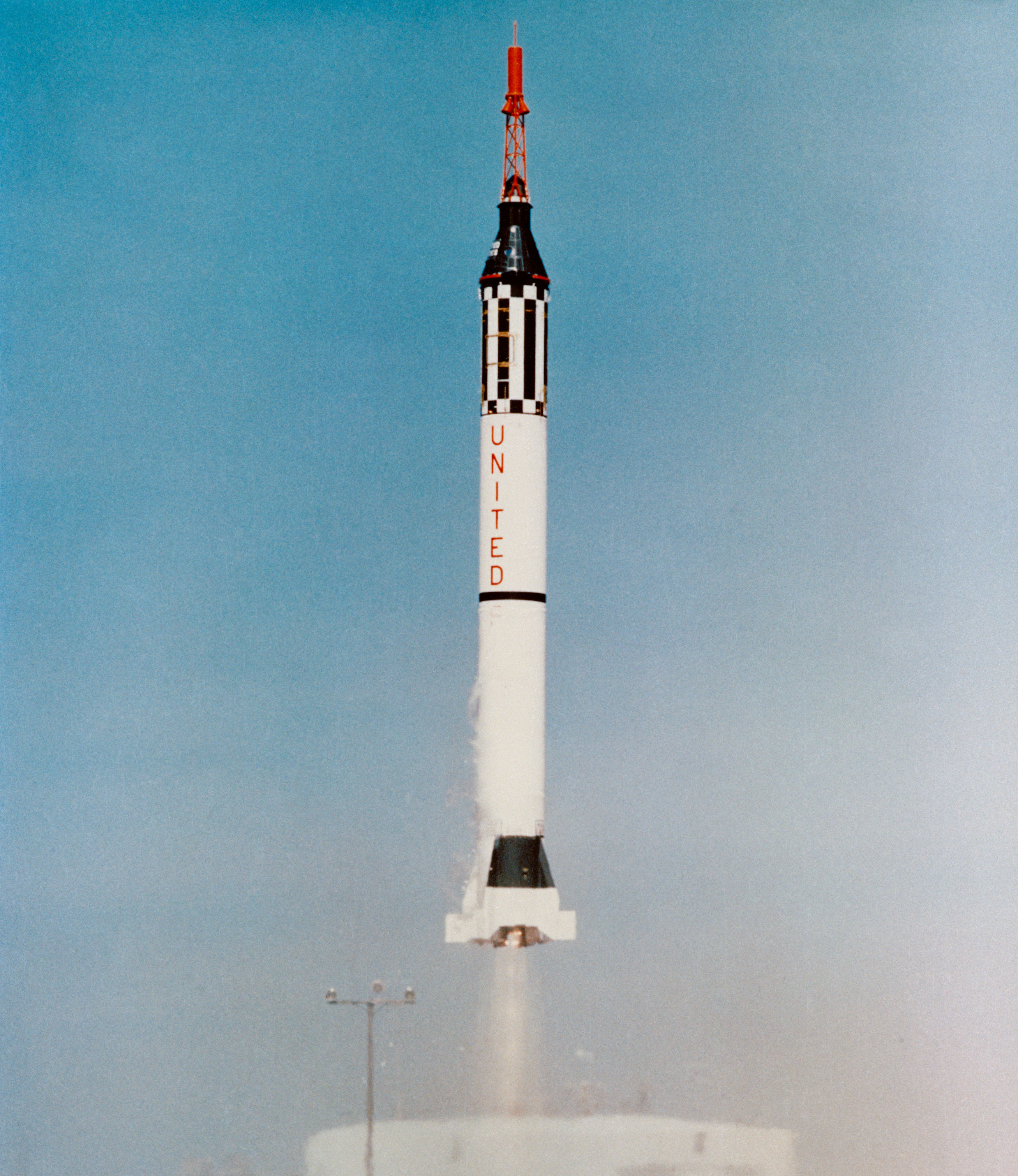 Launch of the unmanned Mercury Redstone 1A (MR-1A) from Cape Canaveral on Dec. 19, 1960. Successful flight to peak altitude of 135 statue miles. Horizontal distance of 235 statue miles.